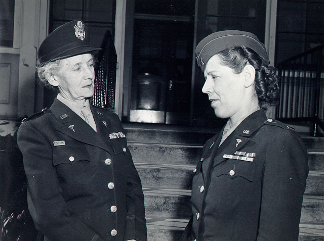 Major Maude C. Davison, ANC, Office of The Surgeon General, Washington, D.C., Commanding Officer of the Army nurses imprisoned at Santo Tomas, P.I., chatting with First Lieutenant Eunice F. Young, ANC, of Arkport, New York, liberated prisoner of war from Santo Tomas, P.I., at Letterman General Hospital, Presidio of San Francisco, California. Public Relations Office, Letterman General Hospital, Presidio of San Francisco, Calif.